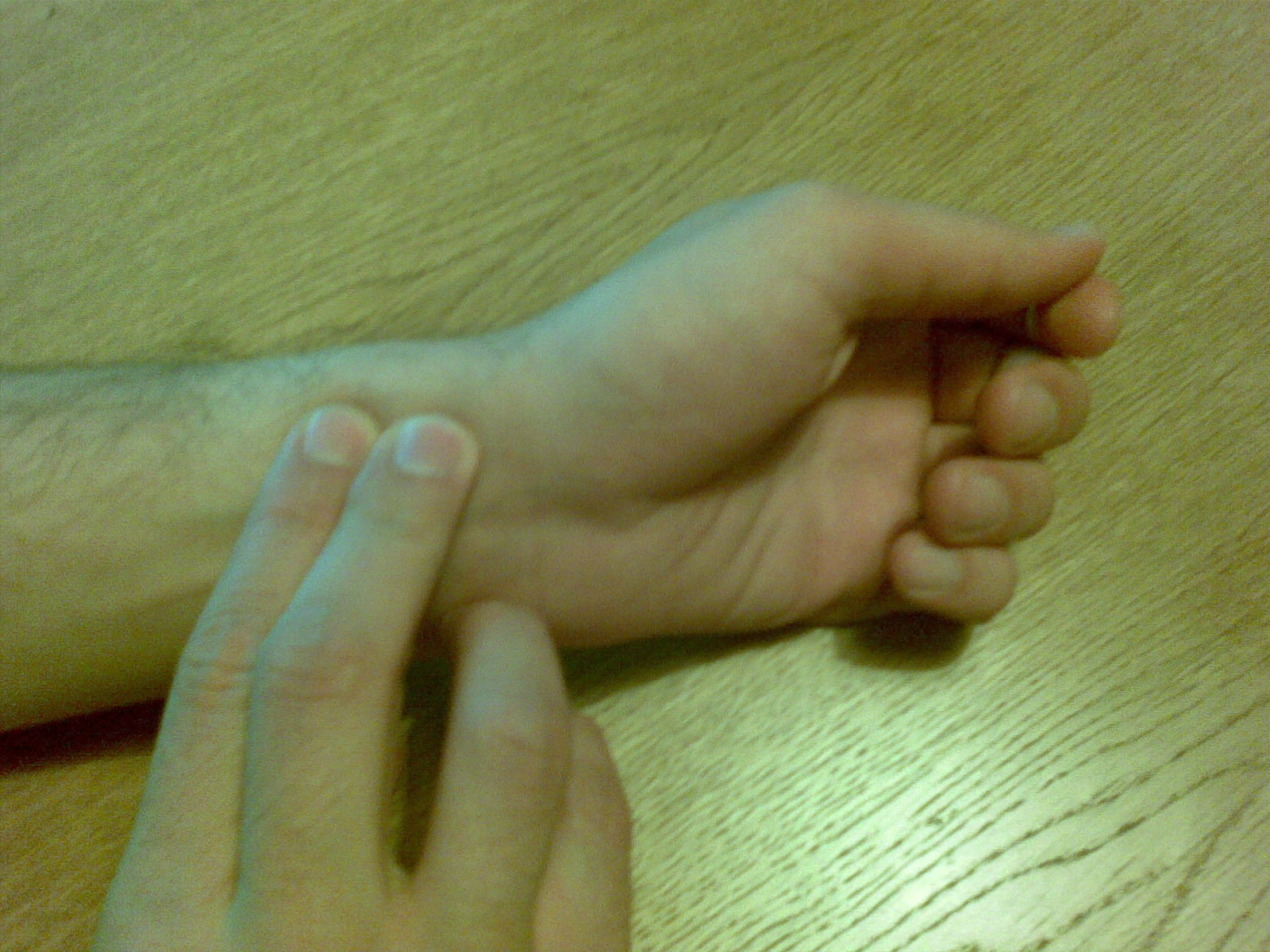 Palpating the pulse of the radial artery.